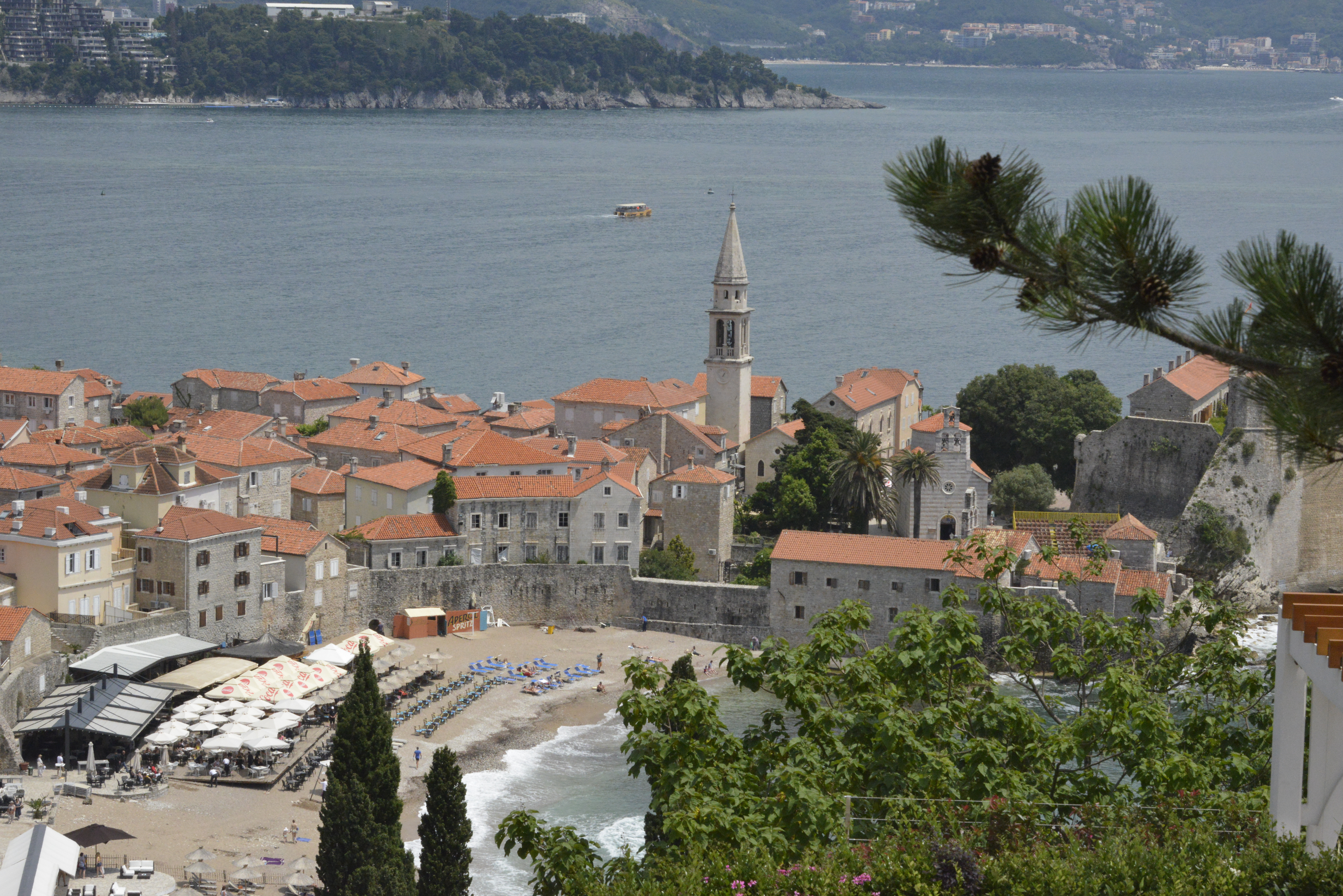 Ricardova Glava Beach in the Old Town of Budva, Montenegro